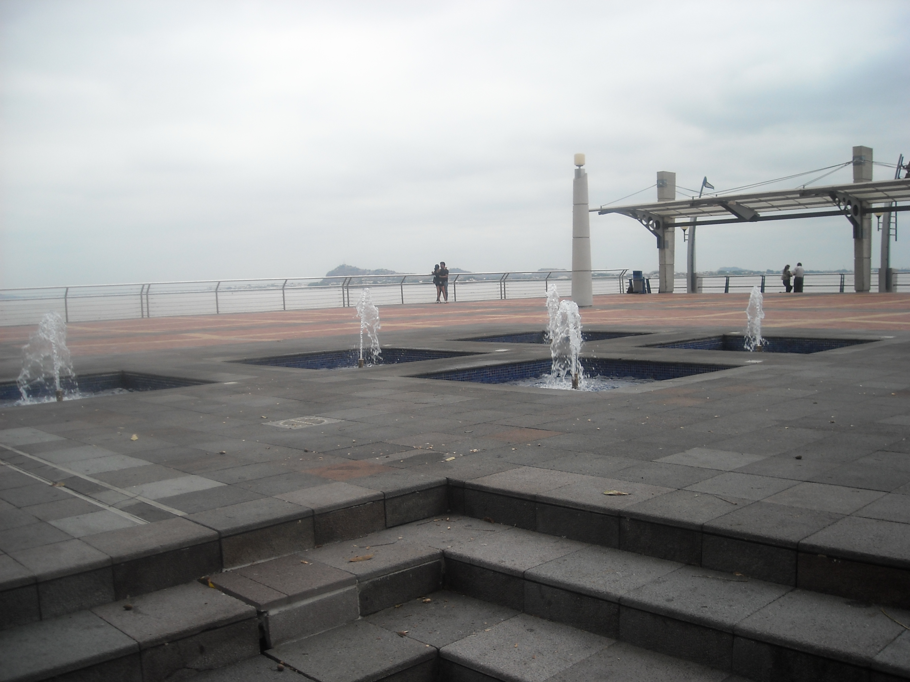 "Malecon" on Guayas River